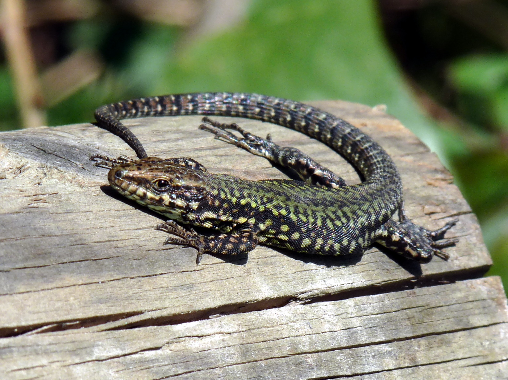 Podarcis muralis, near Livorno, Tuscany, Italy